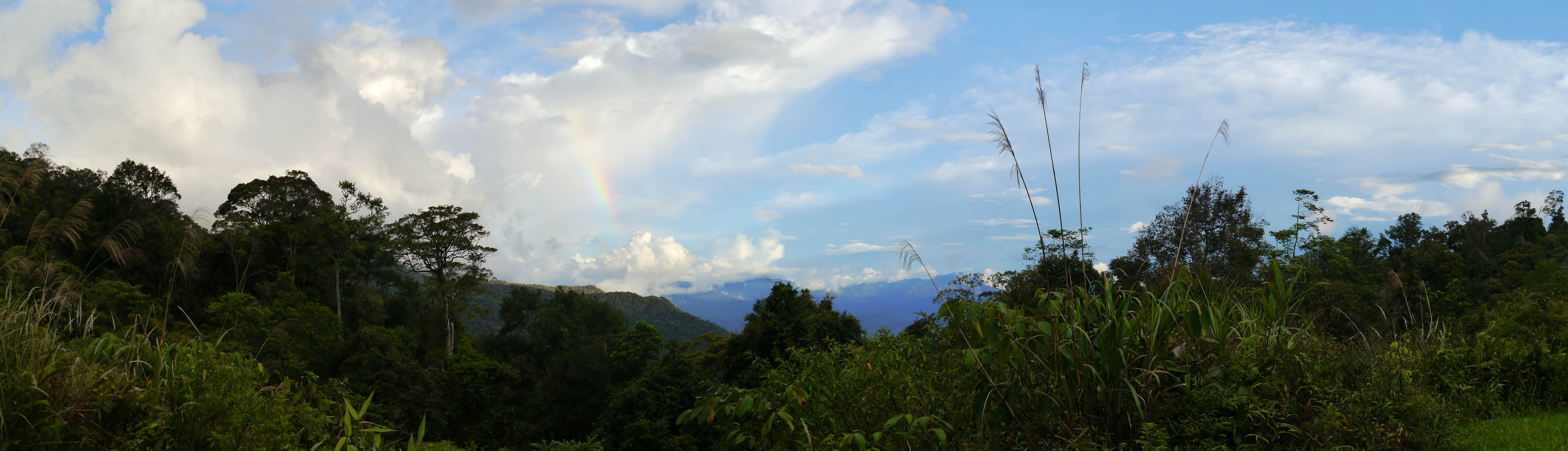 Grasslands and upland rainforest. Sabah, Eastern Malaysia.